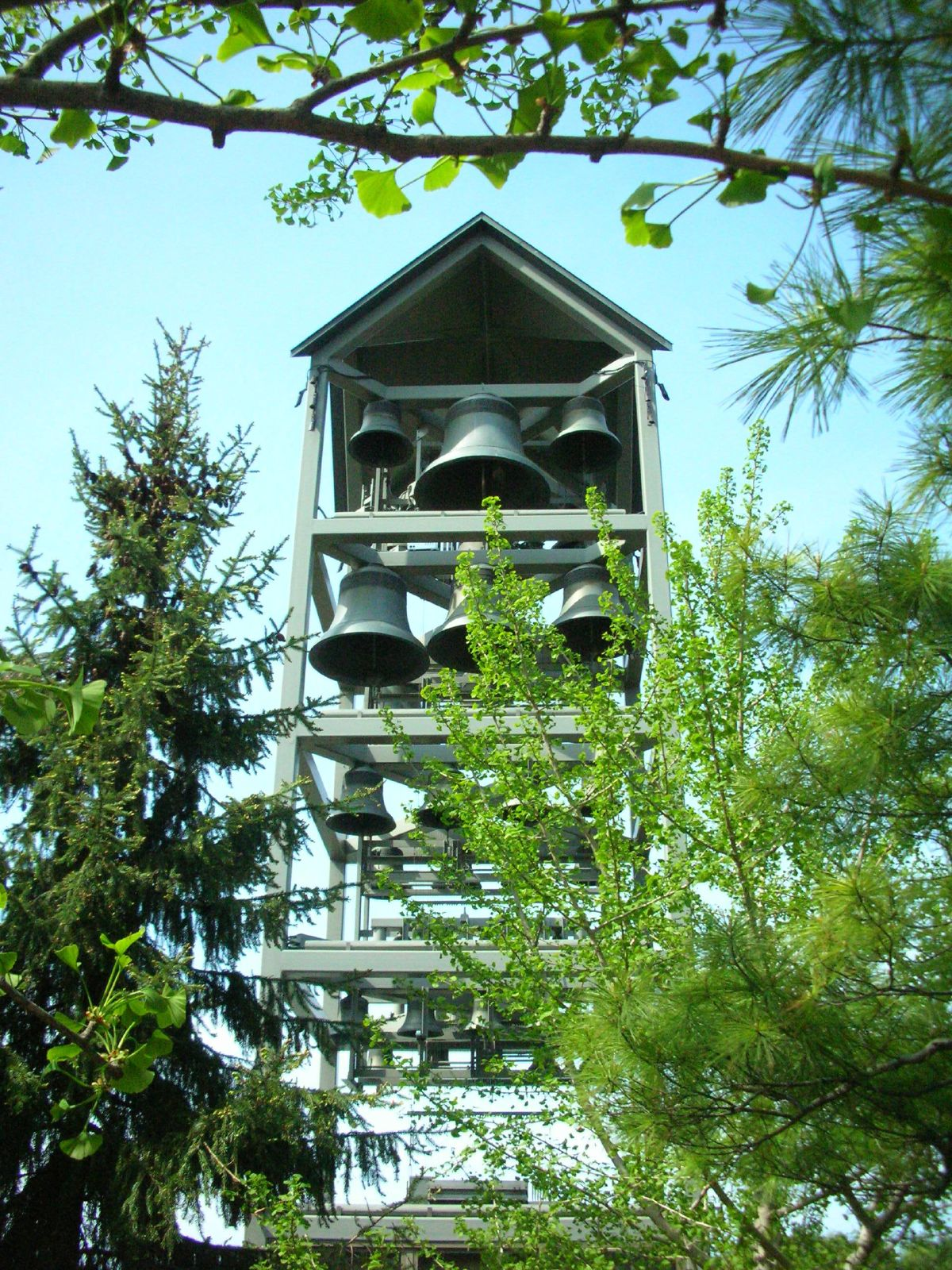 Check out the Carillon at: "A carillon (Dutch: beiaard) is a musical instrument composed of at least 23 cup-shaped bells played from a baton keyboard using fists and feet (such an instrument with fewer than this number of bells is known as a chime). Carillon bells are made of bell bronze, approximately 78% copper and 22% tin. Carillons are normally housed in bell towers. The carillon has the widest dynamic range of any mechanical (non-electric) musical instrument."— Carillon